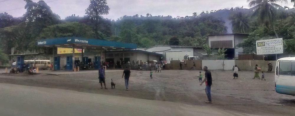 Panoramic photo of Interoil Service station and Agrark Coffee Mill at 5 Mile, on Nadzab Road, Lae Papua New Guinea